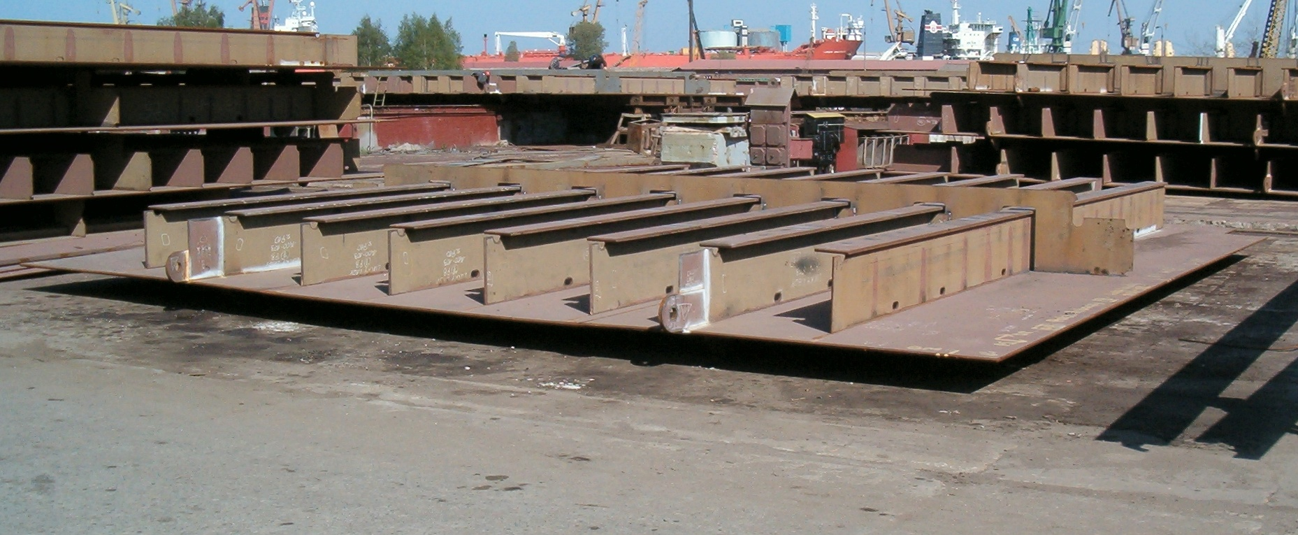 Flat section of the hull